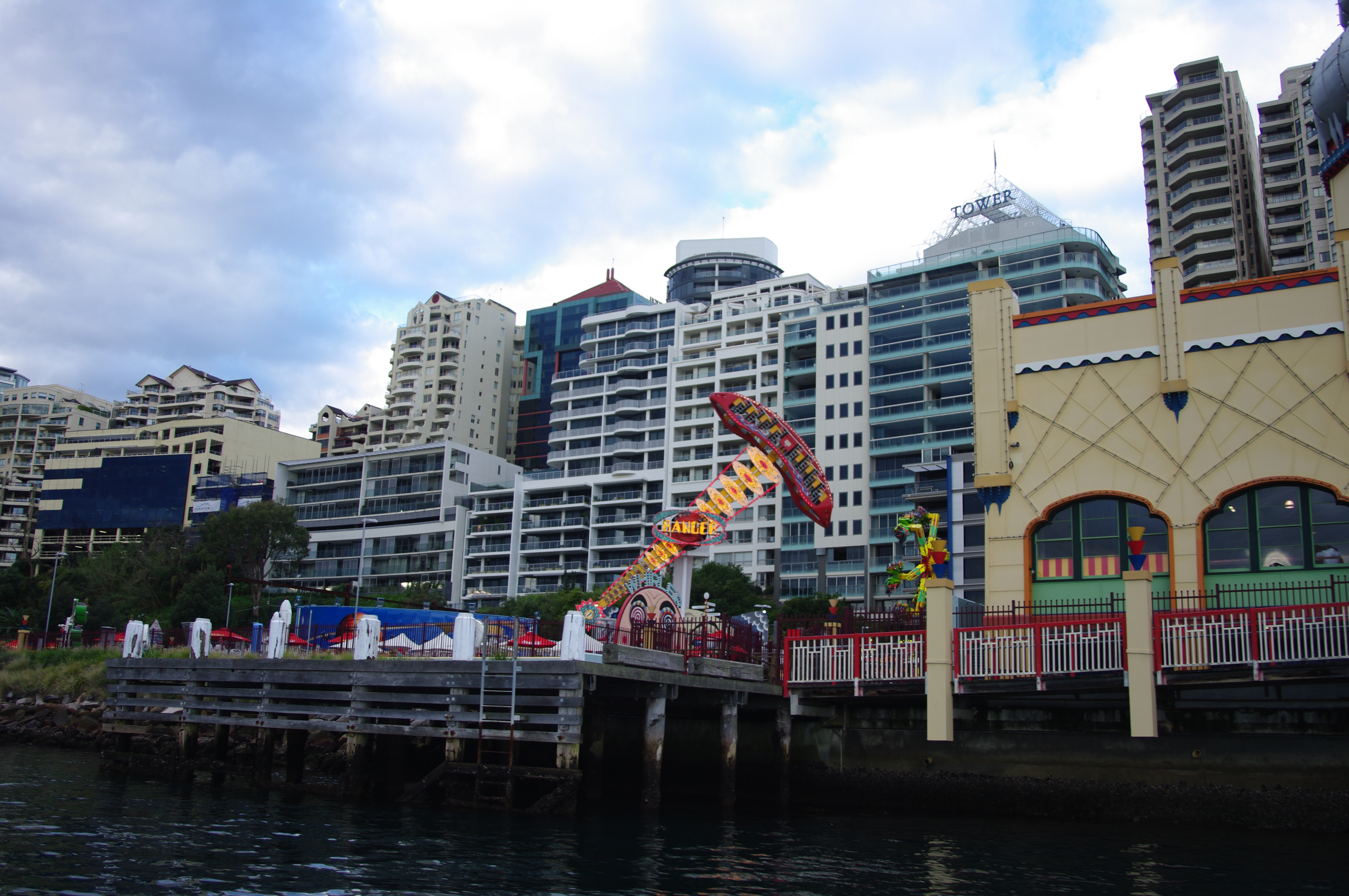 Sydney Harbour taken from a water taxi Luna Park Sydney